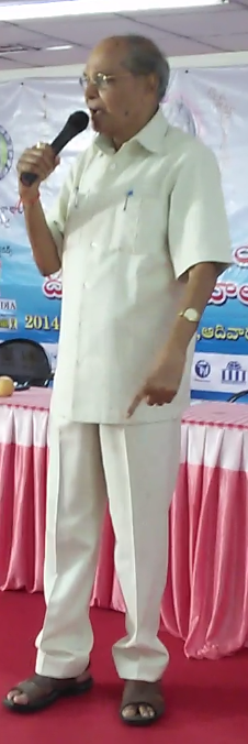 Turlapati Kutumba Rao addressing Telugu Wikipedia Decennial Celebrations in Vijayawada on 16 Feb 2014